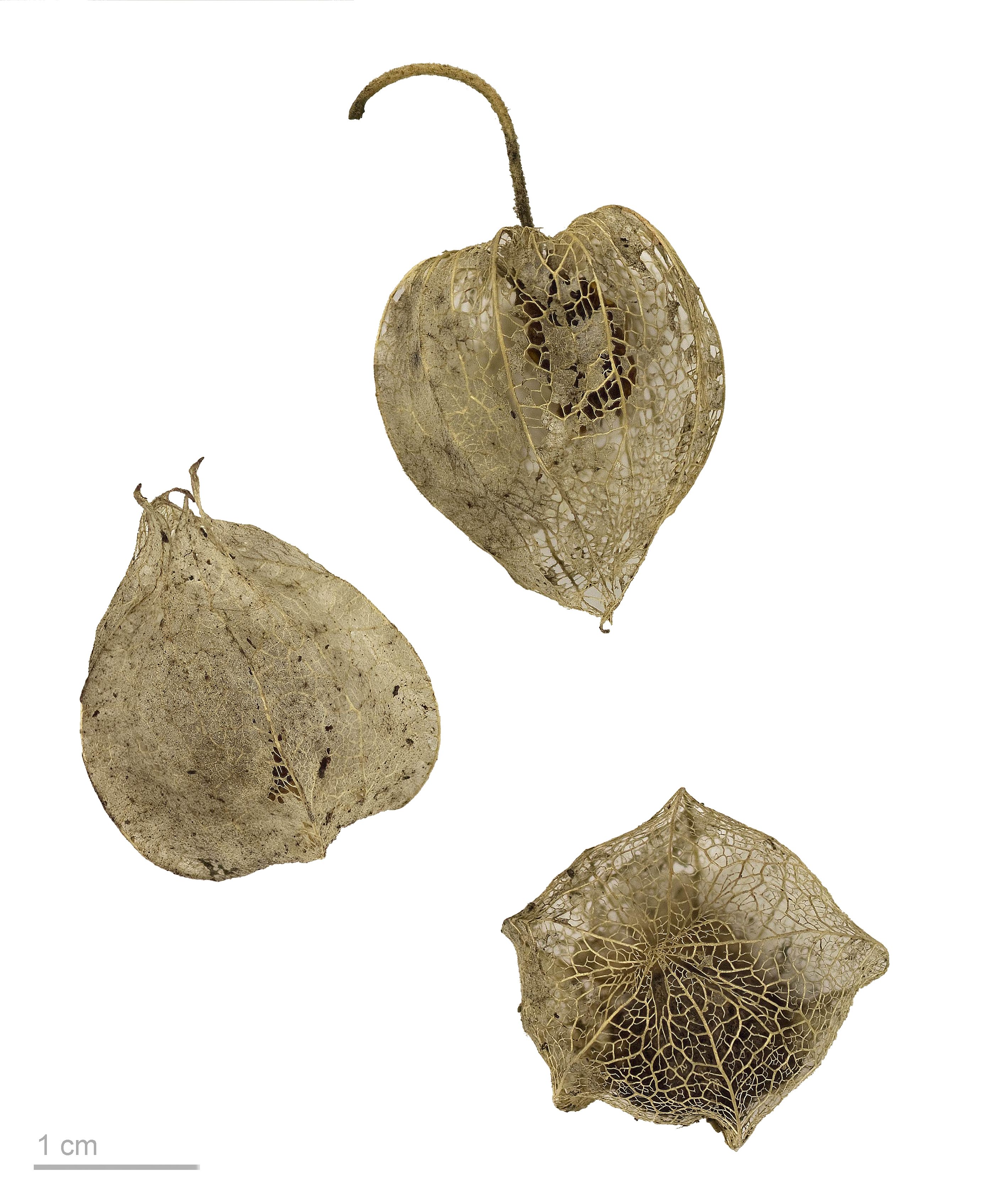 hairy ground-cherry, fruits and seeds